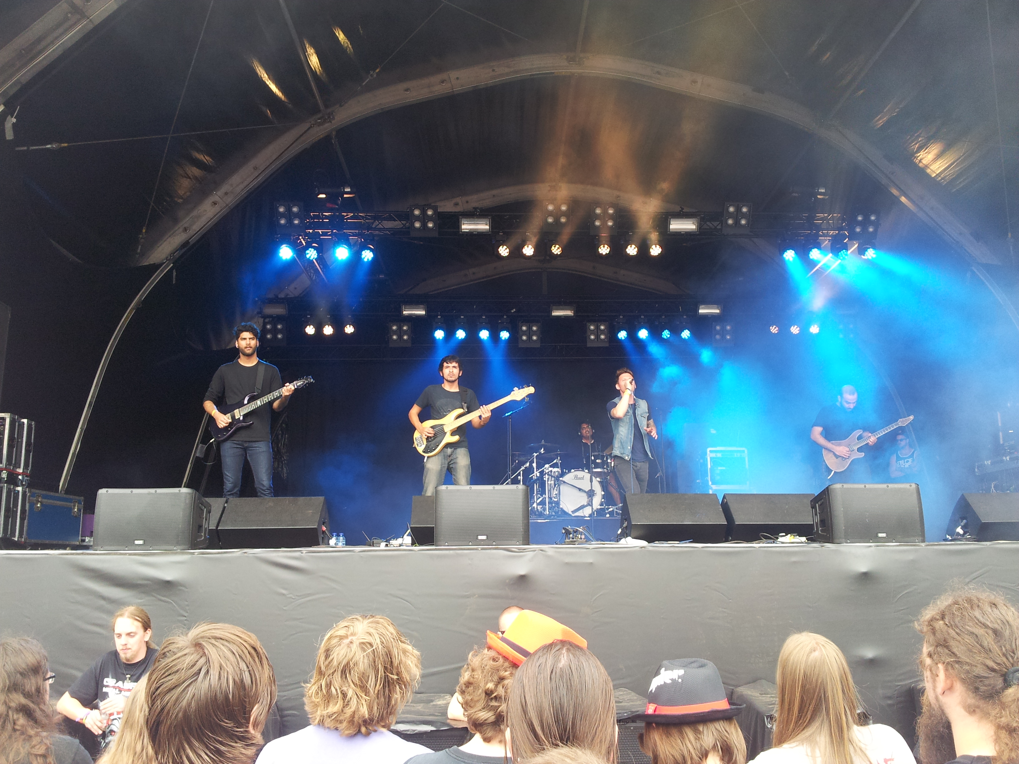 Skyharbor show at Graspop Metal Meeting 2014